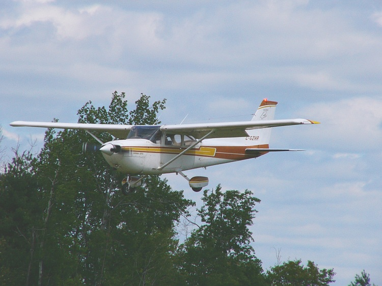 Cessna R172K Hawk XP